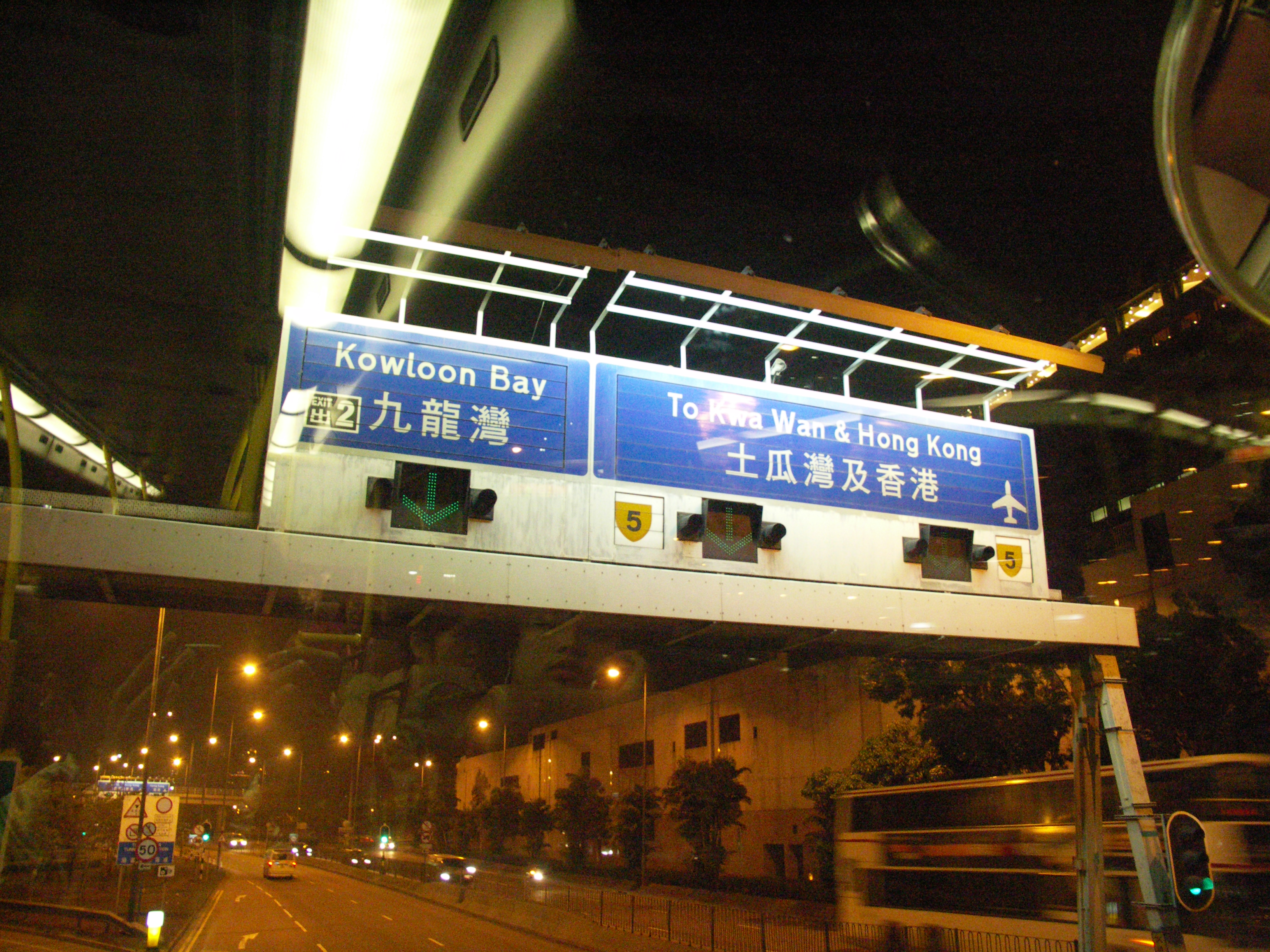 Eastern entrance of Airport Tunnel, Kowloon, Hong Kong, taken from KMB route 215X.